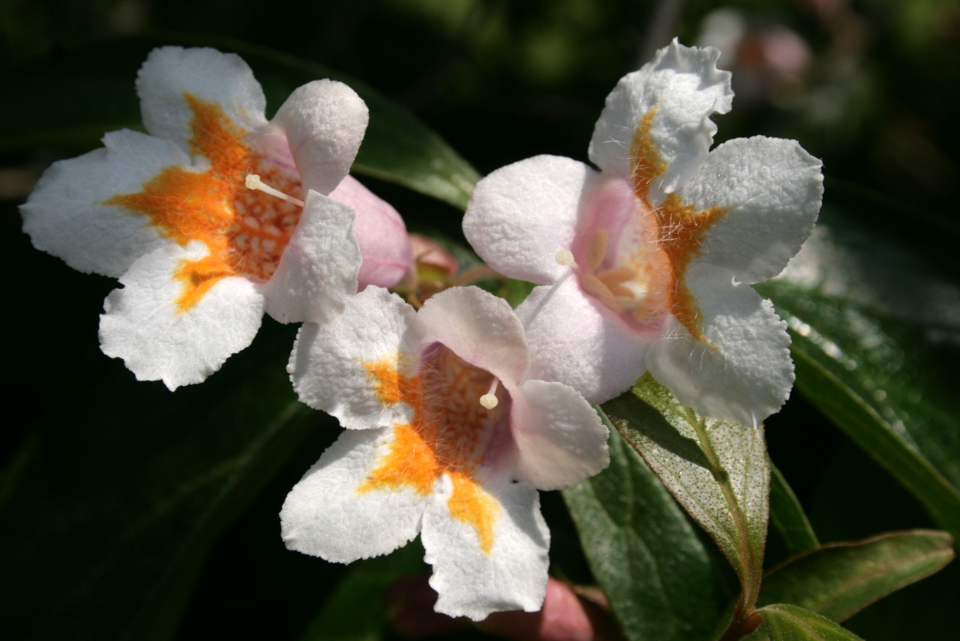 Dipelta floribunda: Close-up on the flowers.